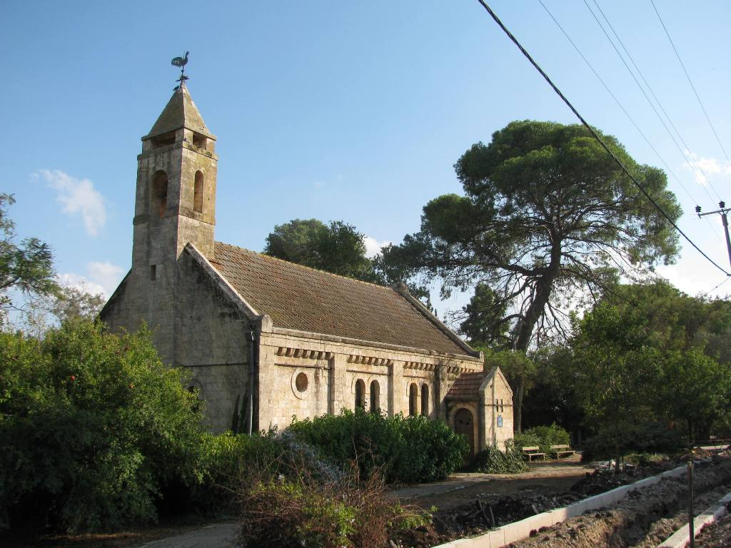 Evangelical Church was built in 1916